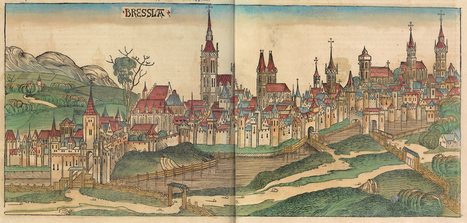 Woodcut of Wrocław from the Nuremberg Chronicle